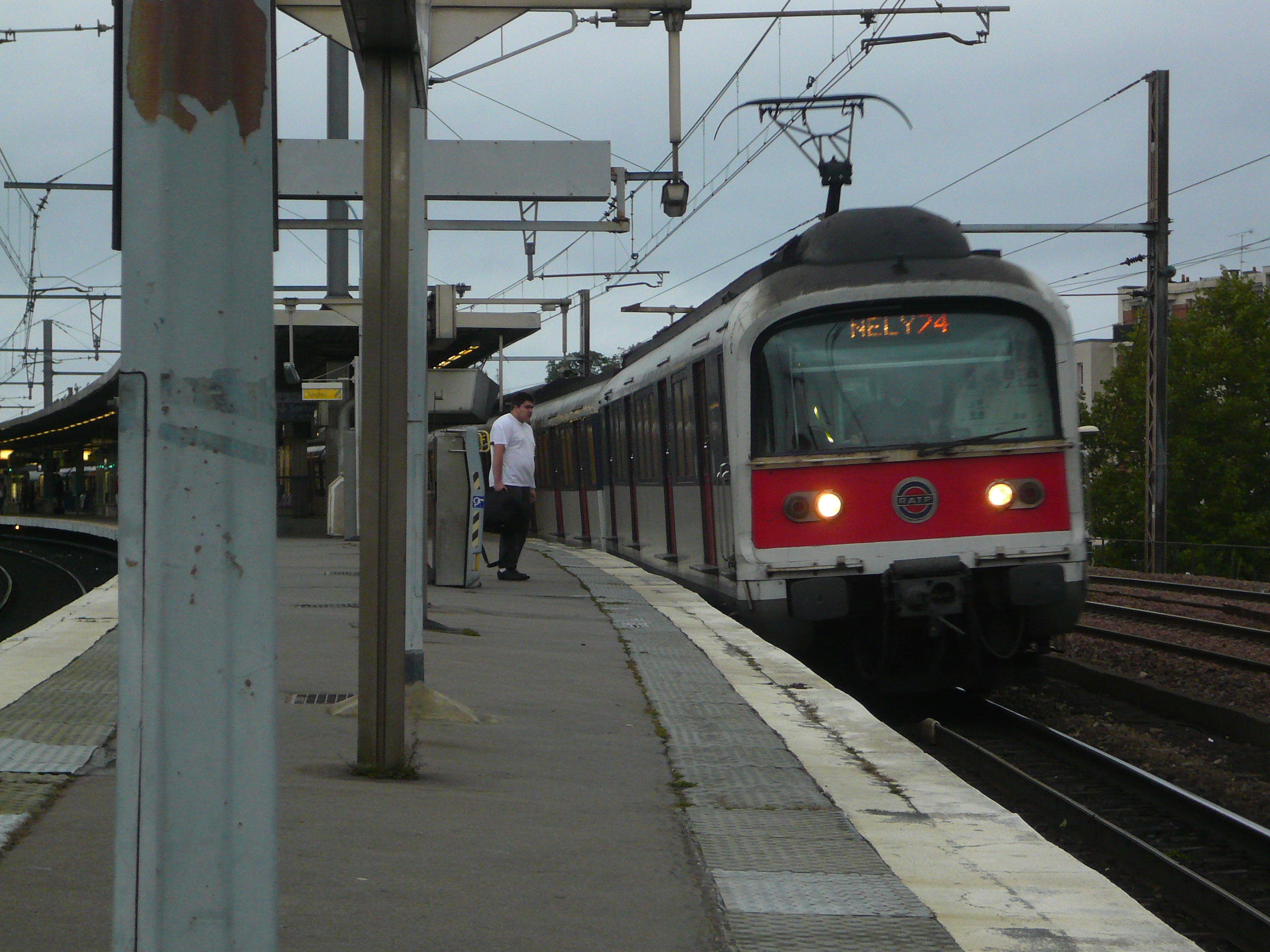 The service NELY74 served by a MS61, going to Boissy-Saint-Léger.